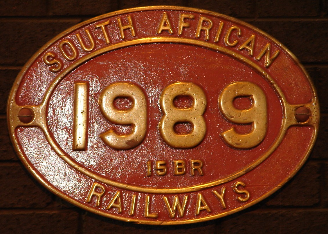 SAR Class 15BR no. 1989 (4-8-2) number plateLocation: George, Western Cape